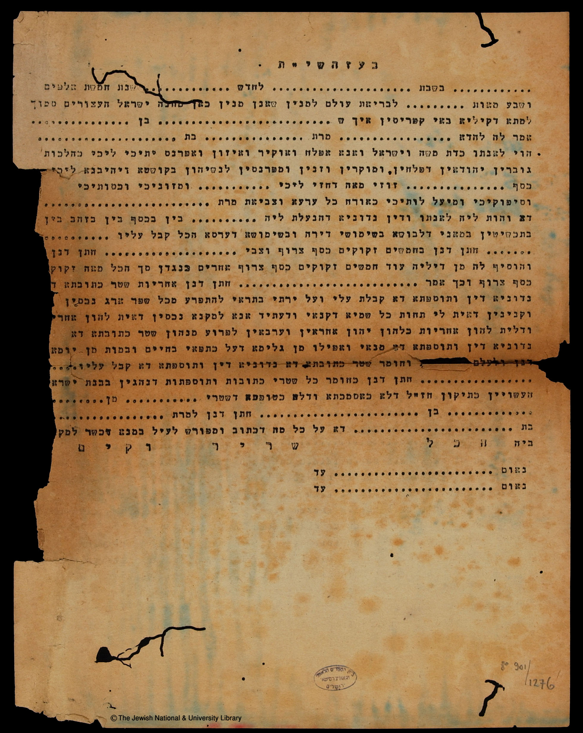 Ketubah from The Ketubot Collection of the National Library of Israel